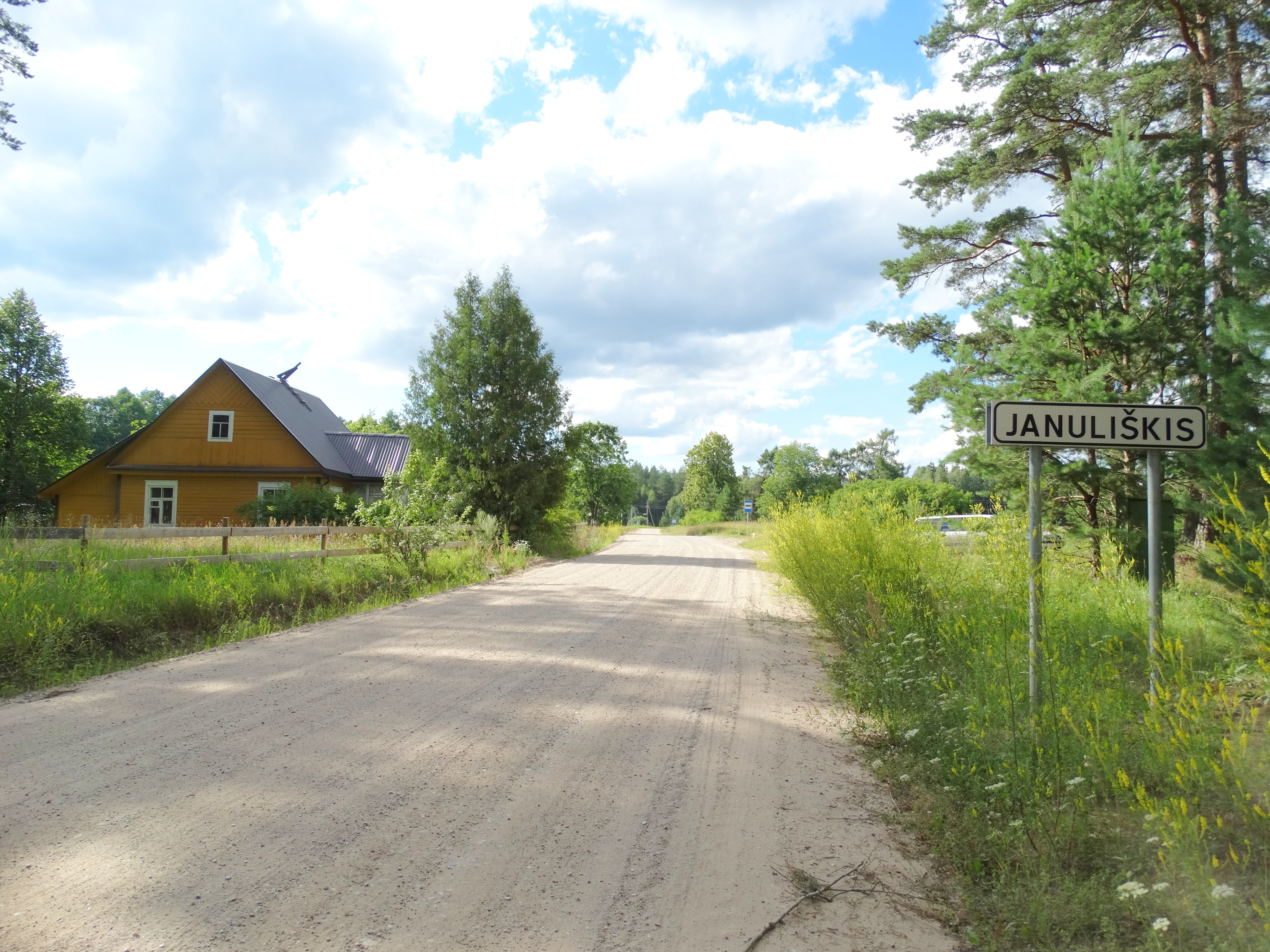 Januliškis, Švenčionys District, Lithuania